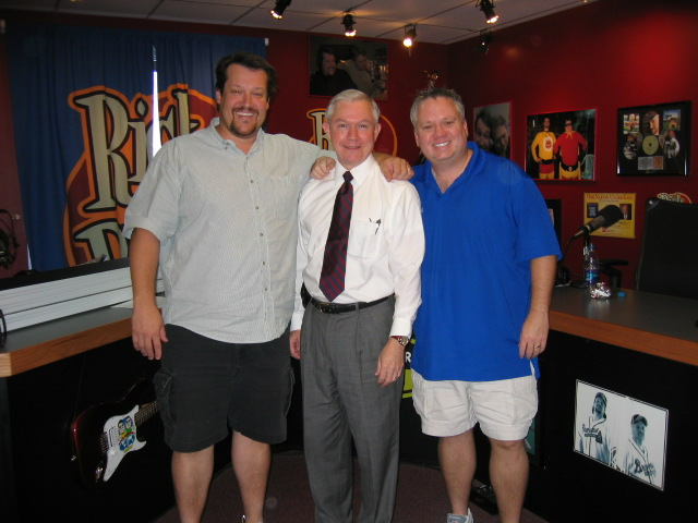 Rick and Bubba, hosts of the award-winning, syndicated “Rick and Bubba Show,” interview Sen. Jeff Sessions in their Birmingham radio studio. (8/18/06)